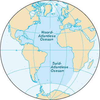 Map of the Atlantic Ocean.